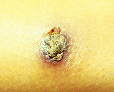 Cutaneous phaeohyphomycosis caused by Exophiala spinifera a pigmented fungus